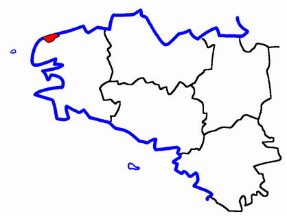 Description: Map for localisazion of cantons of Bretagne region in France Source: made by Hervé Tigier in april 2005 from another large map (published in 1990)